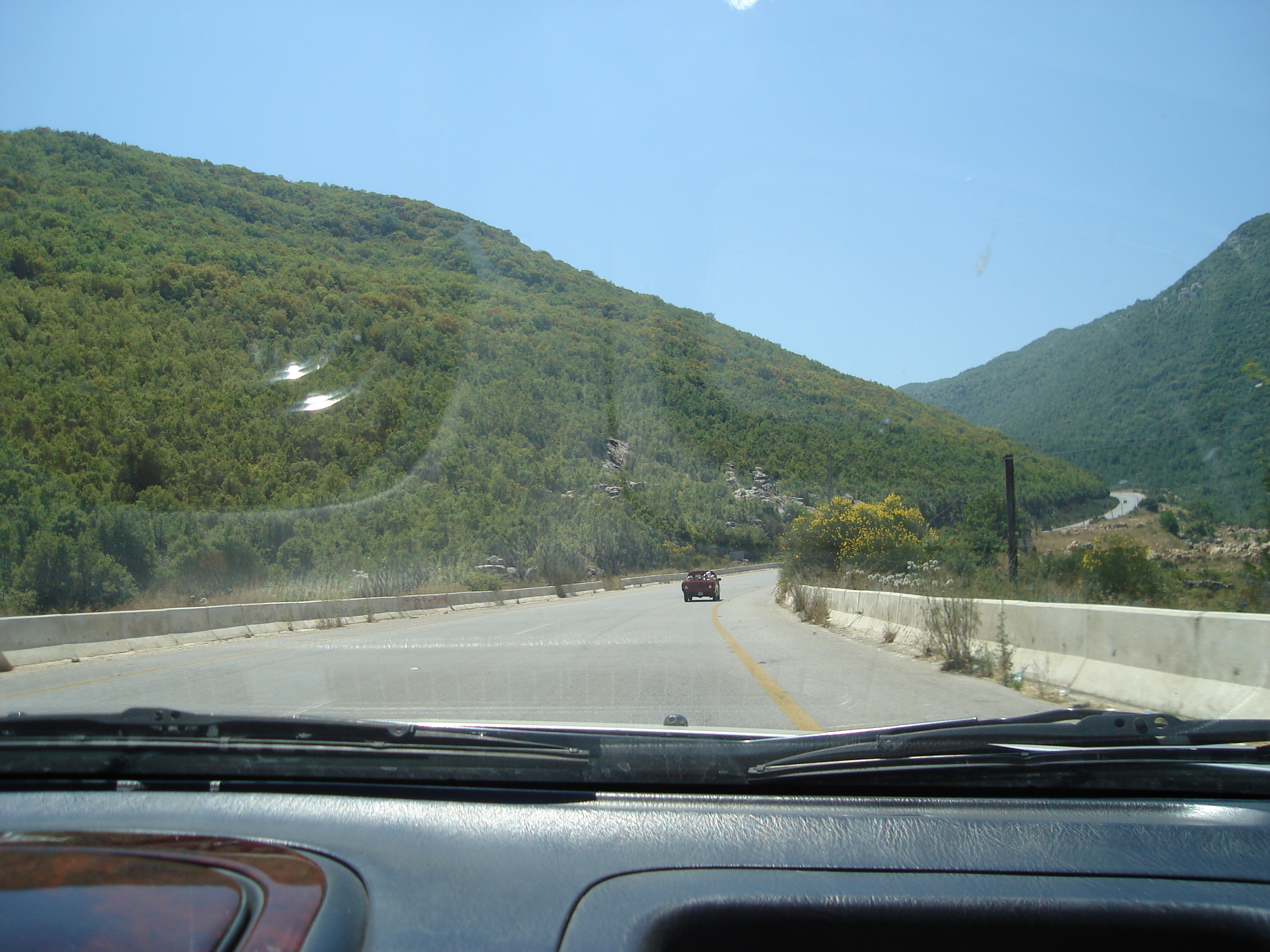 طريق بيت ياشوط و سهل الغاب.